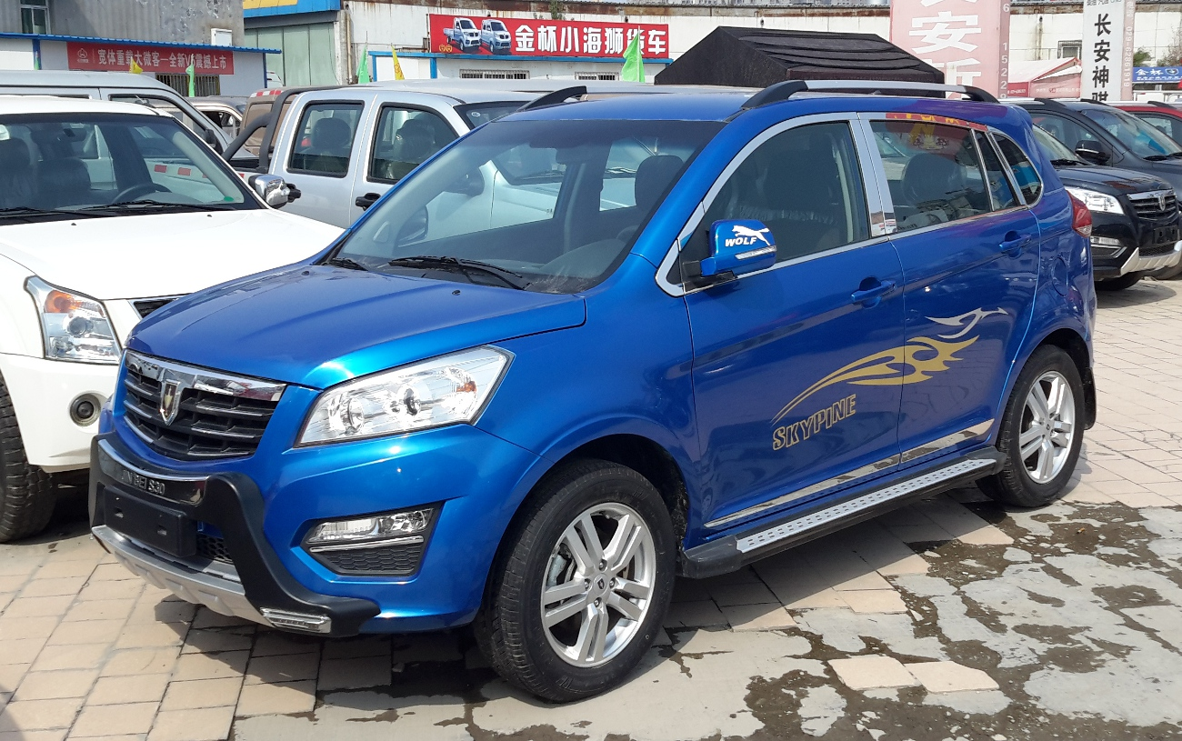 Jinbei S30 photographed in Xi'an, Shaanxi province, China.